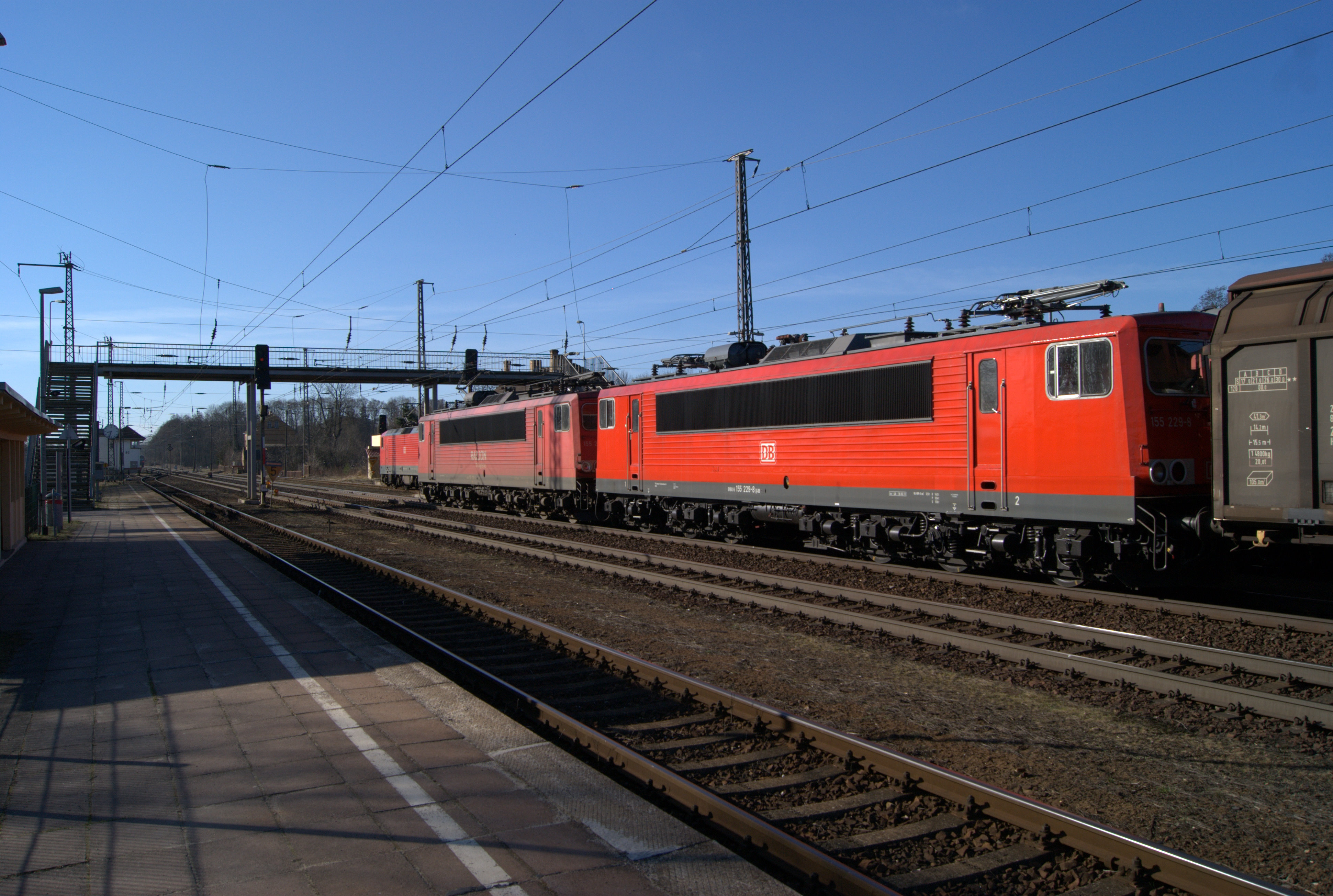 Flattr dieses Foto! Flattr this!